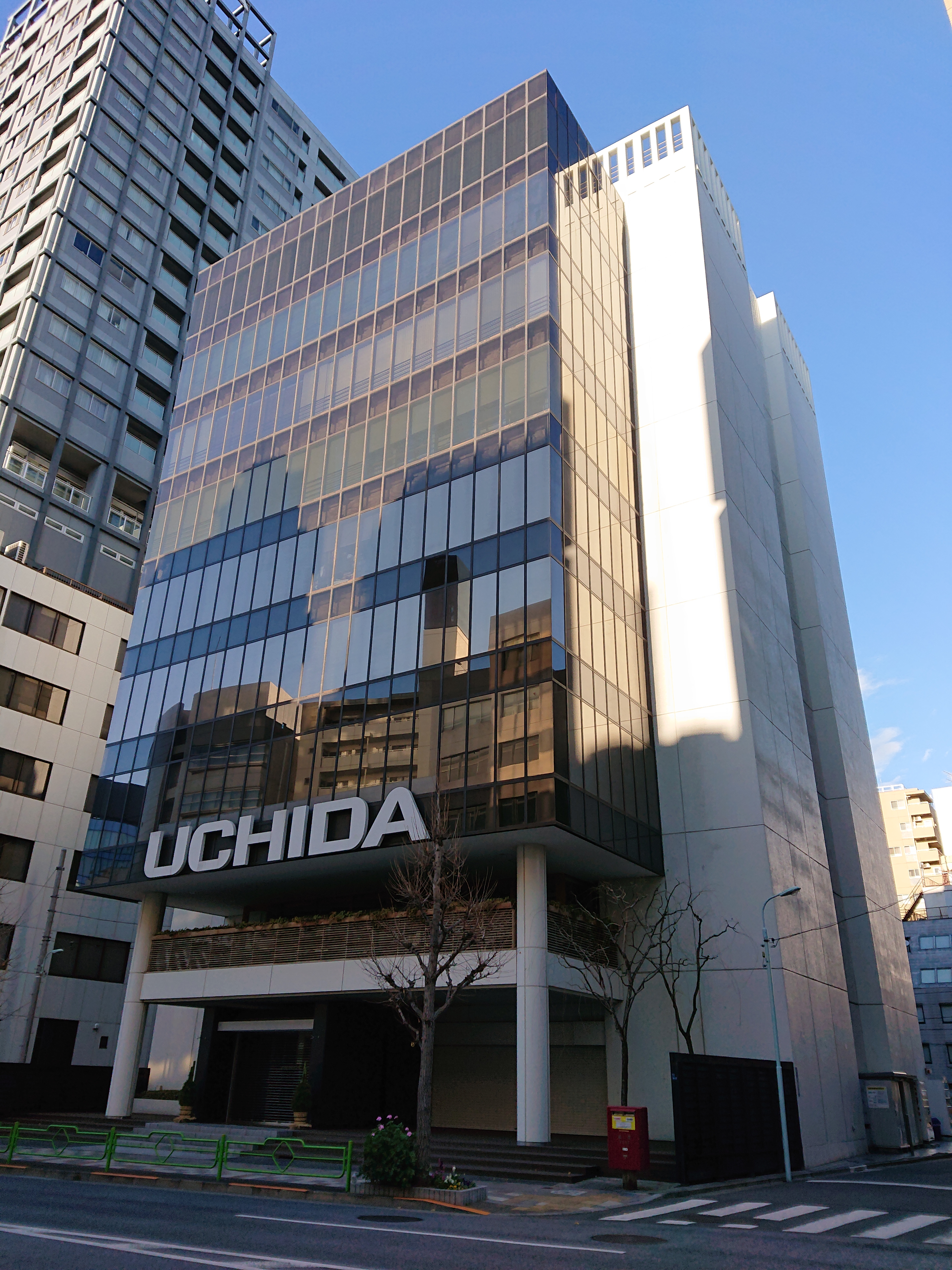 Uchida Yoko (内田洋行), located at 2-4-7 Shinkawa, Chuo, Tokyo, Japan